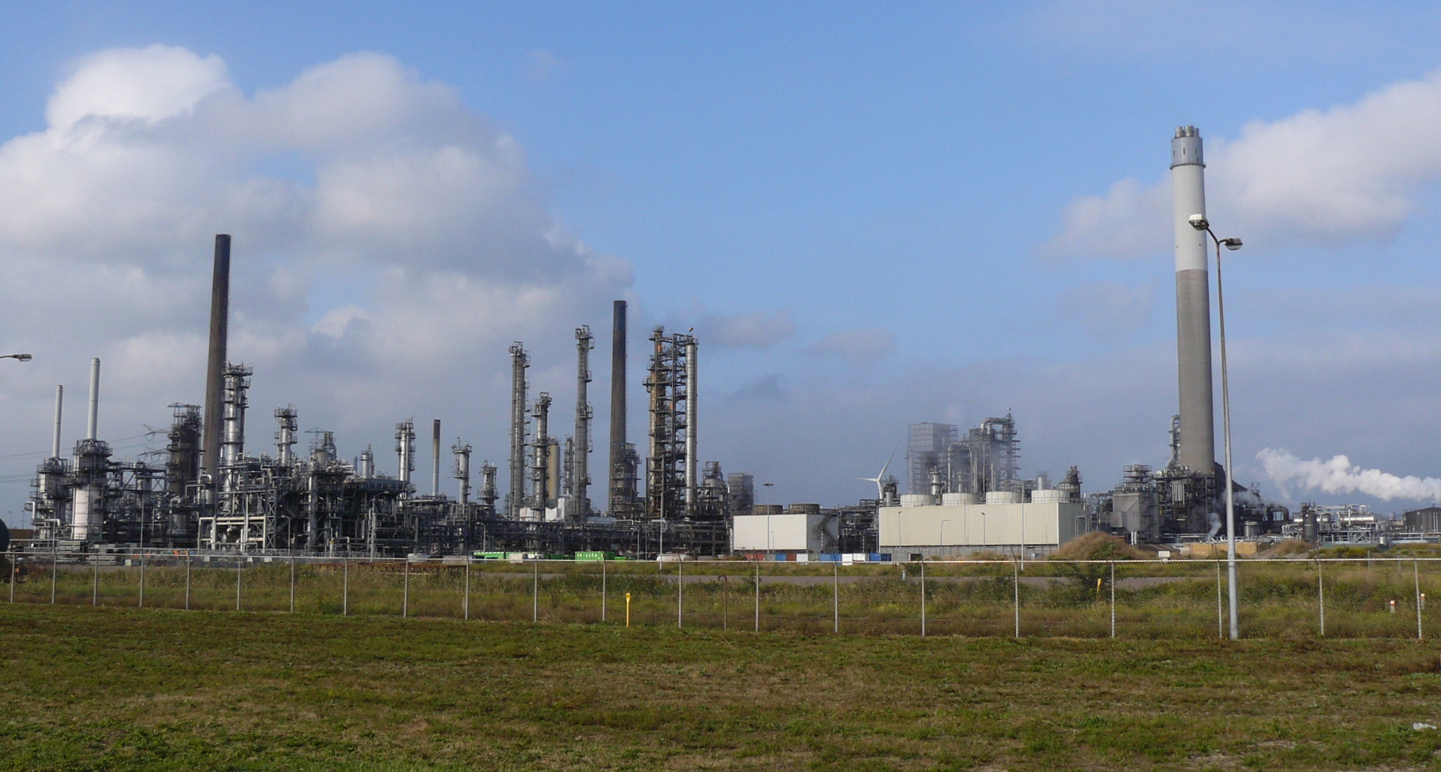 BP refinery in Rotterdam